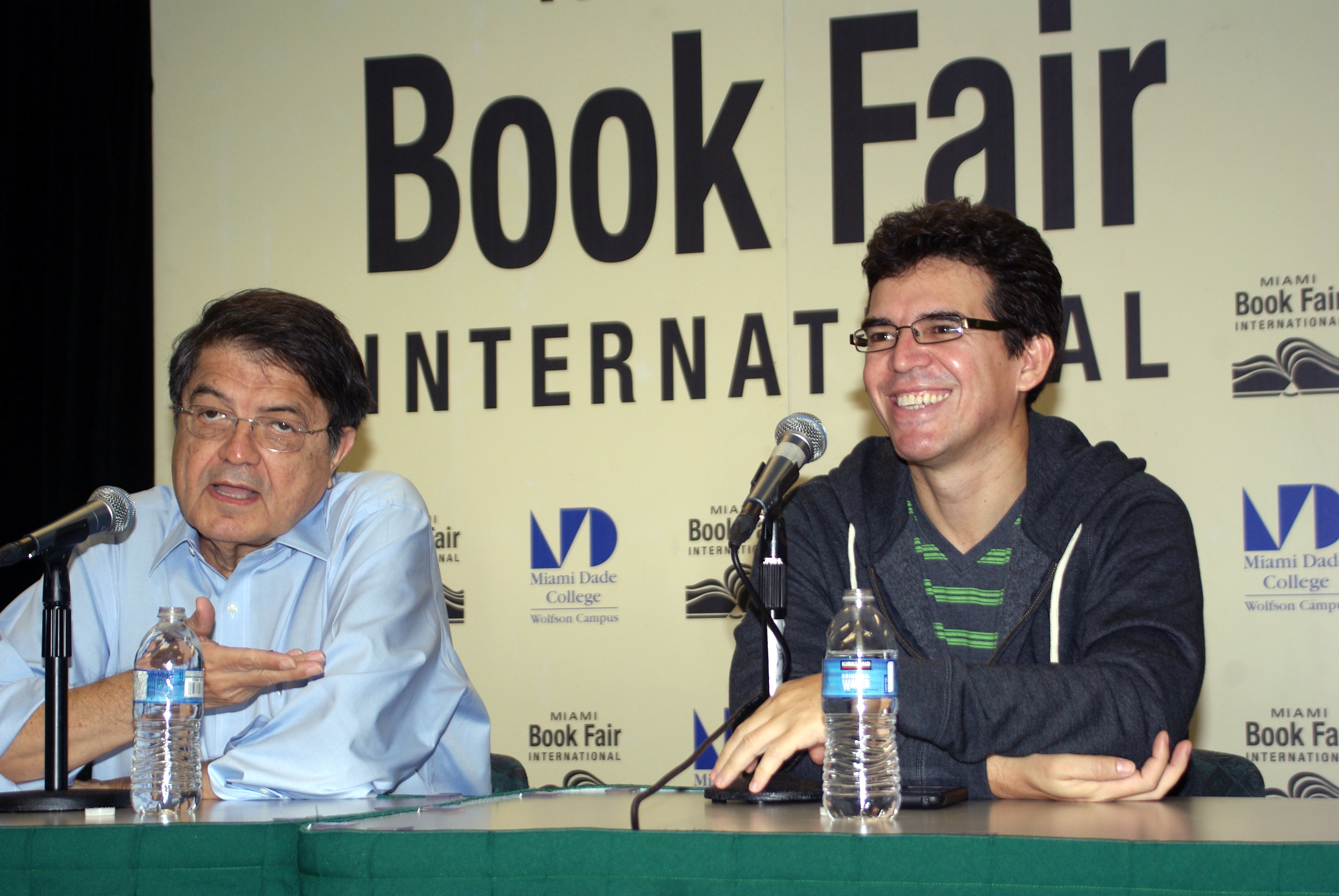 Nicaraguan writer Sergio Ramirez with the Bolivian writer Edmundo Paz Soldan at the Miami Book Fair International 2001